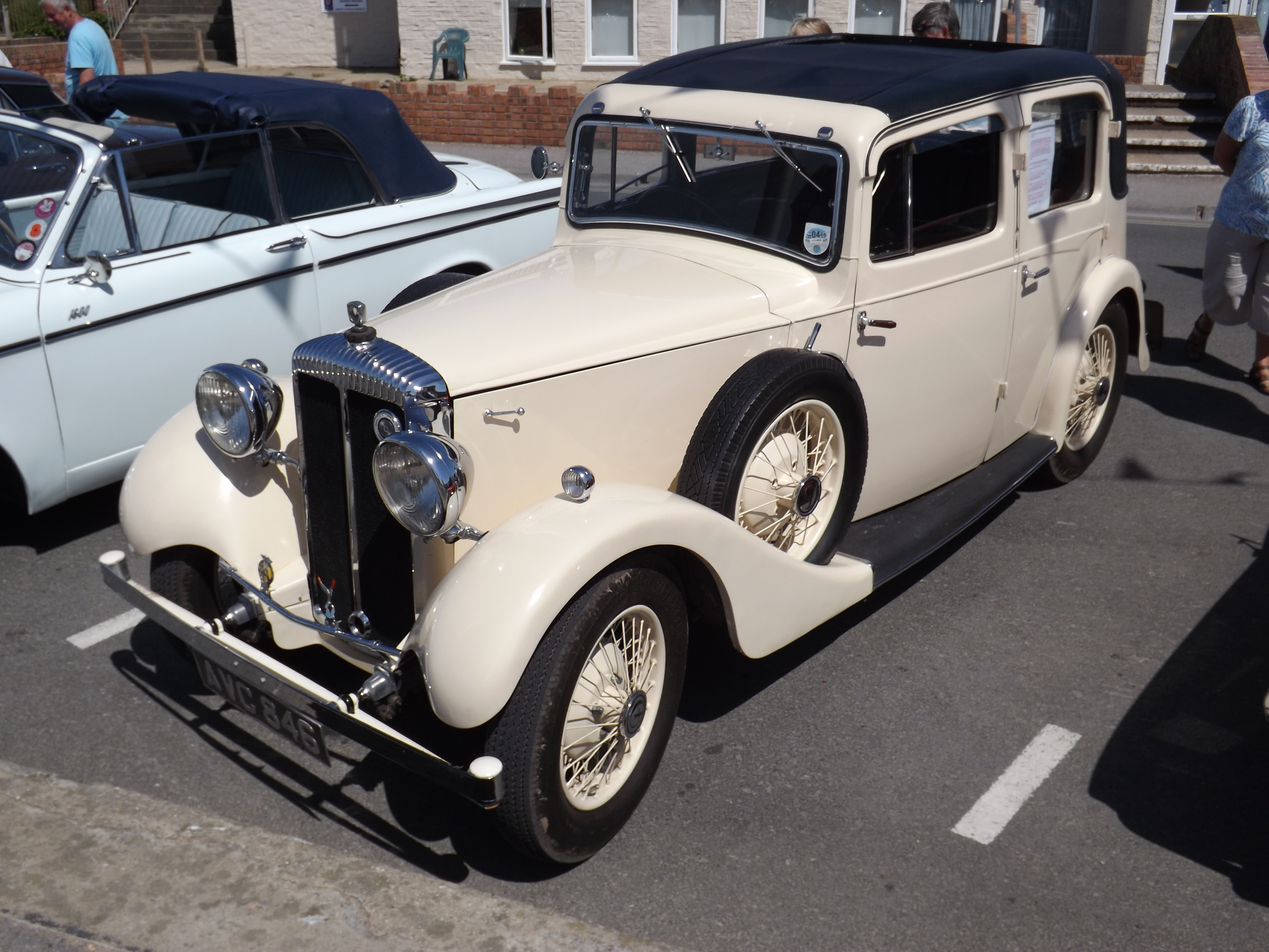 Spotted at West Bay, Bridport, Dorset on Sunday 3rd August 2014